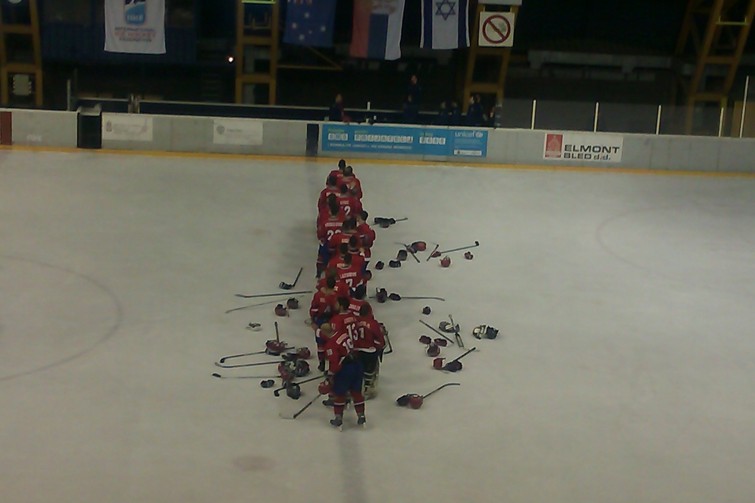 2014 IIHF World Championship Division II Serbia - Israel 10:6 in Belgrade 10. april 2014Српски (ћирилица): Светско првенство у хокеју на леду 2014 — Дивизија II, Србија - Израел 10:6 у Београду 10. априла 2014